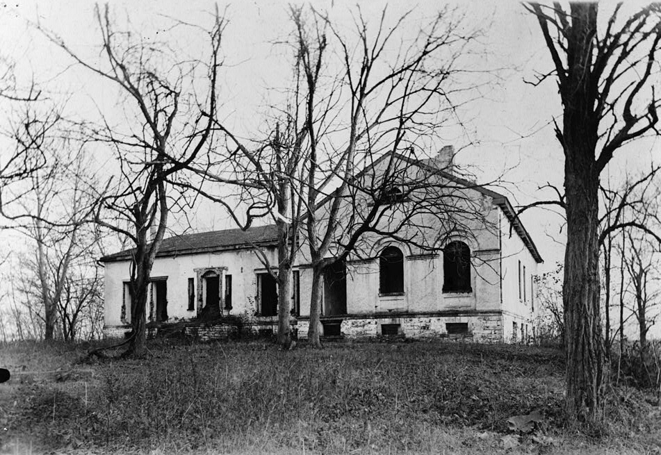 19th century photograph of Mason House on Theodore Roosevelt Island (then, Analostan Island).